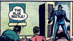 Template:Descript-inner-art